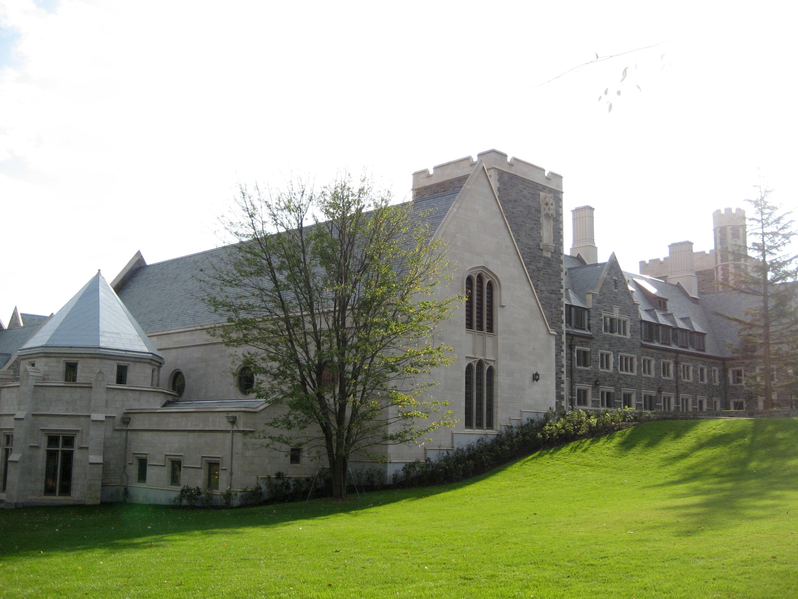 Picture of Princeton University's Whitman College. Designed by architect Demetri Porphyrios, built in 2002.